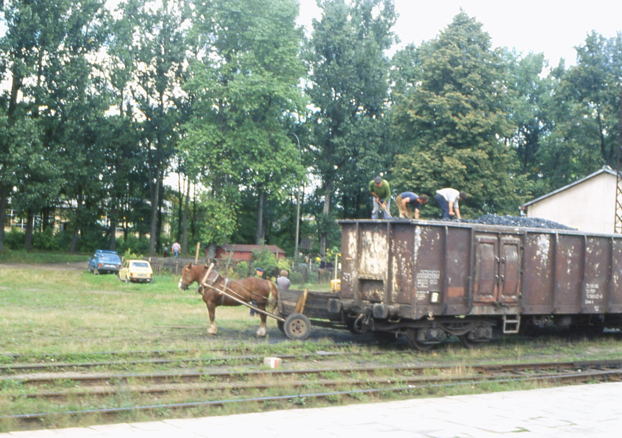 Coals are loaded from a railway wagon upon a horse wagon (Biaɫystok PL 1991)